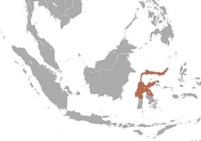 Elongated Shrew (Crocidura elongata) range